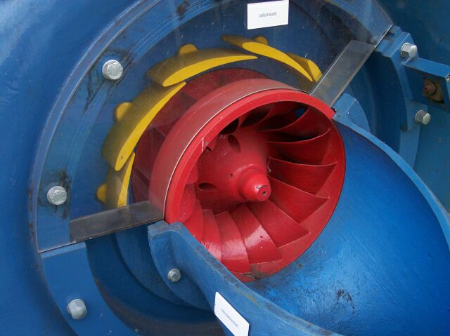 Guide vanes at minimum flow setting (cut-away view)